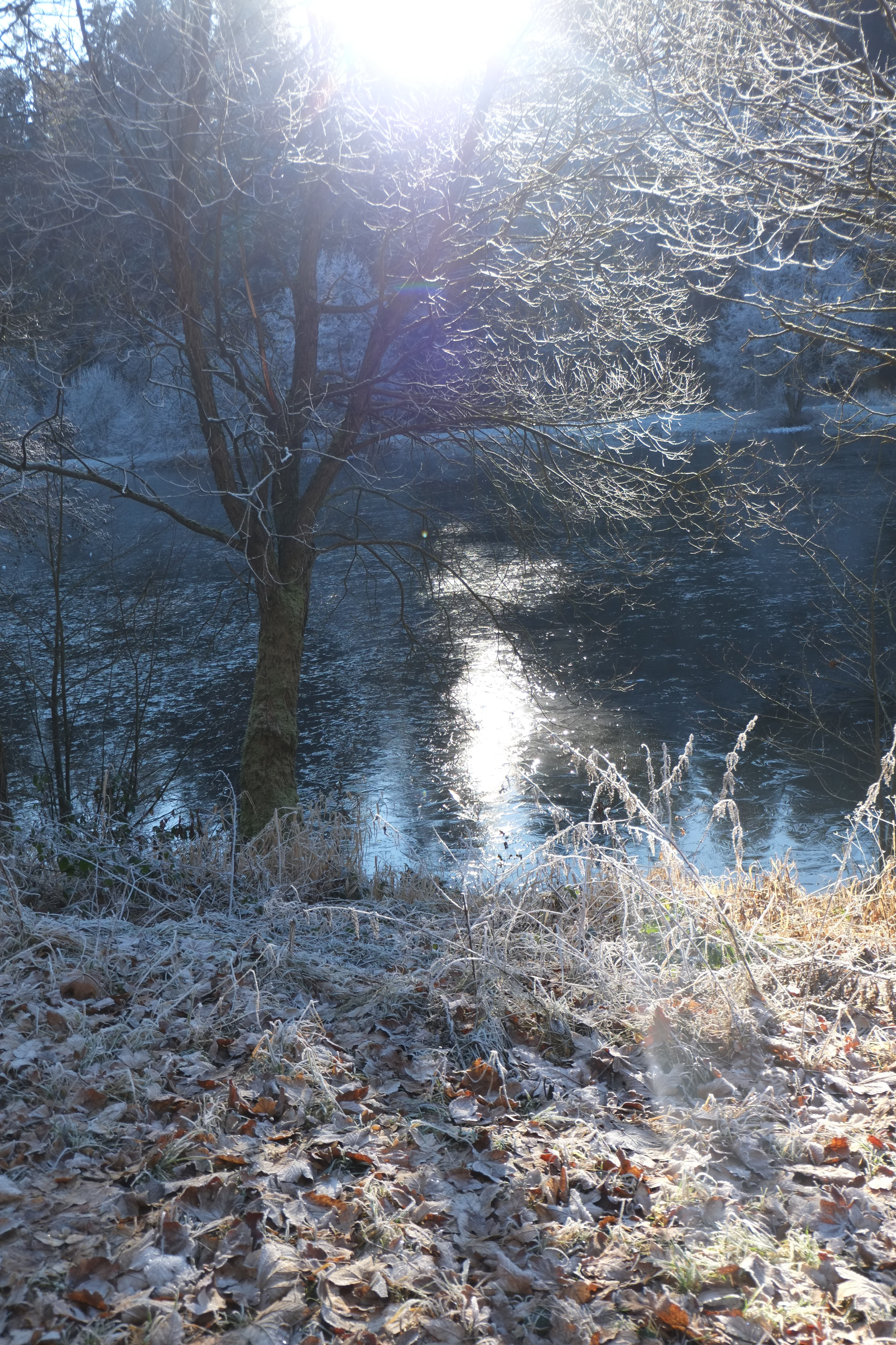 Silbersee im Linsphertal bei Bromskirchen (Hessen, Deutschland) im Winter